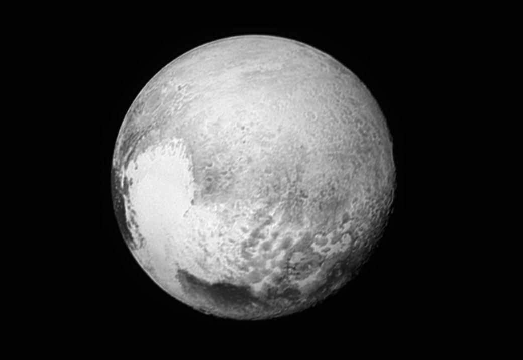 PIA20037: Mapping Pluto's 'Broken Heart' NASA's New Horizons spacecraft is returning images, such as this one of Pluto's 'Broken Heart,' to improve maps of other regions. In addition to transmitting new high-resolution images and other data on the familiar close-approach hemispheres of Pluto and Charon, NASA's New Horizons spacecraft is also returning images -- such as this one -- to improve maps of other regions. This image was taken by the New Horizons Long Range Reconnaissance Imager (LORRI) on the morning of July 13, 2015, from a range of 1.03 million miles (1.7 million kilometers) and has a resolution of 5.1 miles (8.3 kilometers) per pixel. It provides fascinating new details to help the science team map the informally named Krun Macula (the prominent dark spot at the bottom of the image) and the complex terrain east and northeast of Pluto's "heart" (Tombaugh Regio). Pluto's north pole is on the planet's disk at the 12 o'clock position of this image. The Johns Hopkins University Applied Physics Laboratory in Laurel, Maryland, designed, built, and operates the New Horizons spacecraft, and manages the mission for NASA's Science Mission Directorate. The Southwest Research Institute, based in San Antonio, leads the science team, payload operations and encounter science planning. New Horizons is part of the New Frontiers Program managed by NASA's Marshall Space Flight Center in Huntsville, Alabama